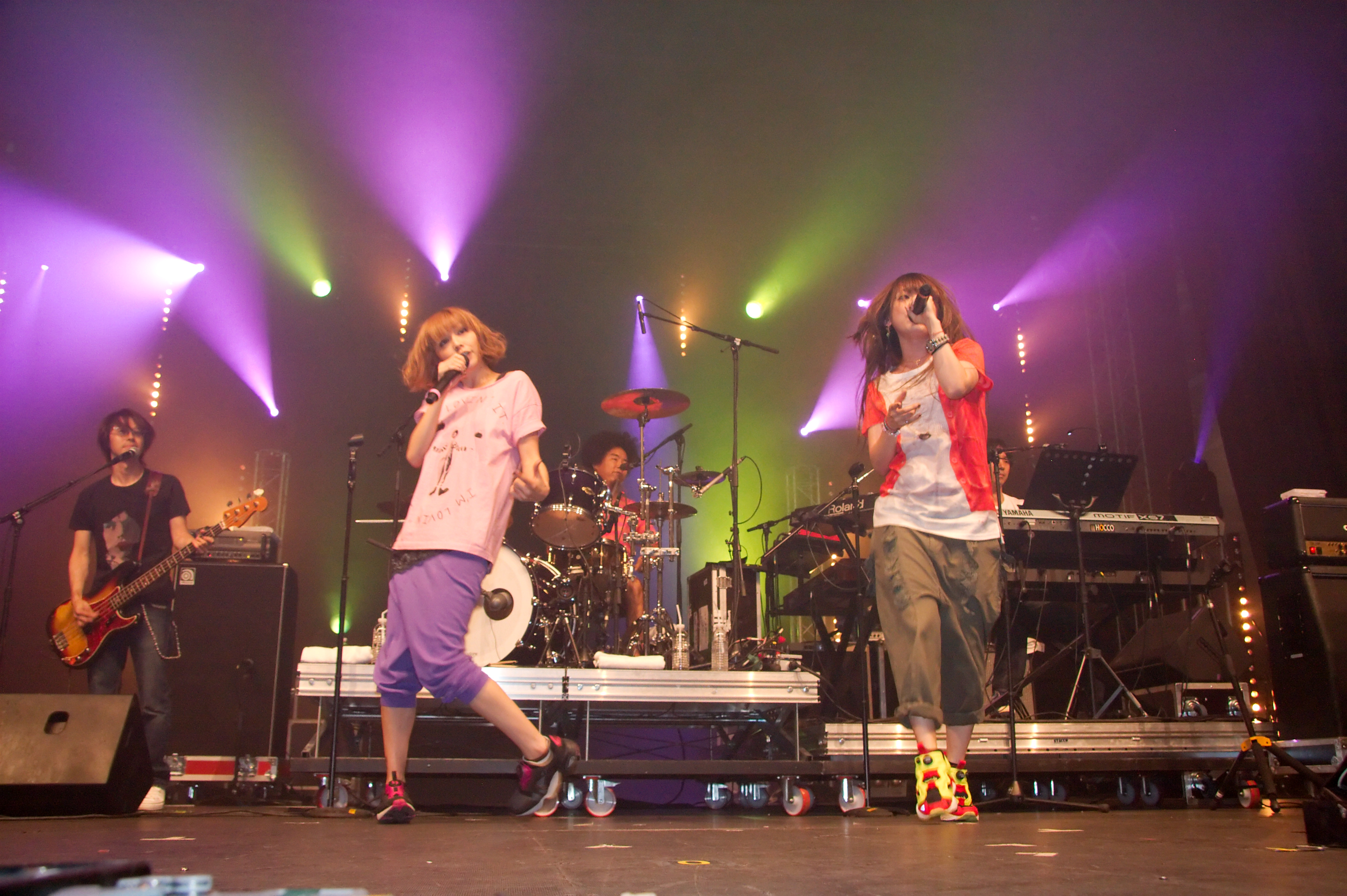 Puffy AmiYumi live at Japan Expo 2009 (Paris, France)